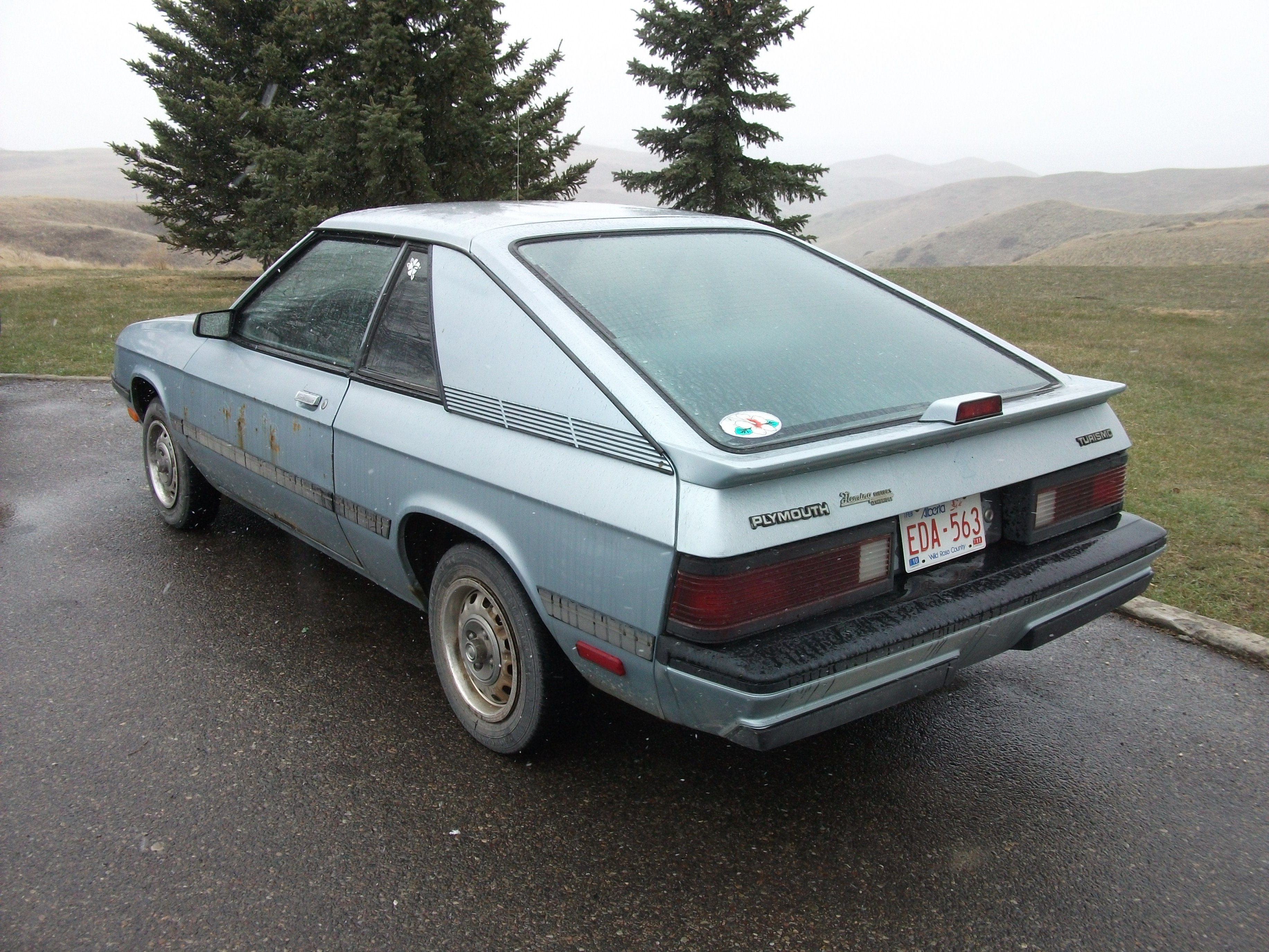 An 1986 or 1987 Plymouth Turismo I learned to drive on an almost identical Plymouth Turismo. The dash was swapped in from a Charger at some point. Ours was a 1986 version but eventually developed a blown headgasket or coolant leak (didn't know much about mechanics then. Leaked coolant like crazy so we only filled with straight water from a garden hose. I couldn't go anywhere that I couldn't borrow a hose to re-fill. Drove it like that for months.